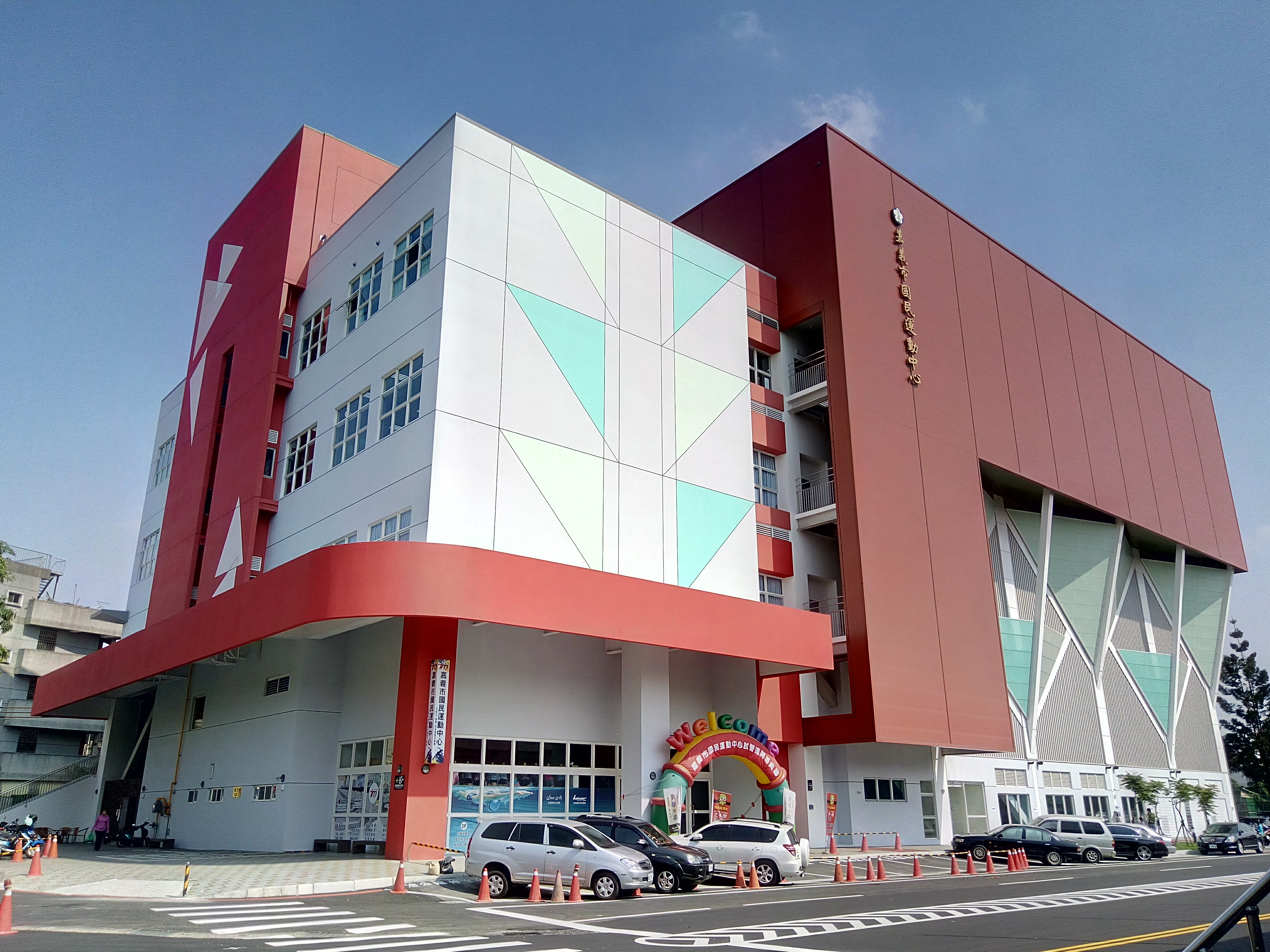 Chiayi City Civil Sports Center